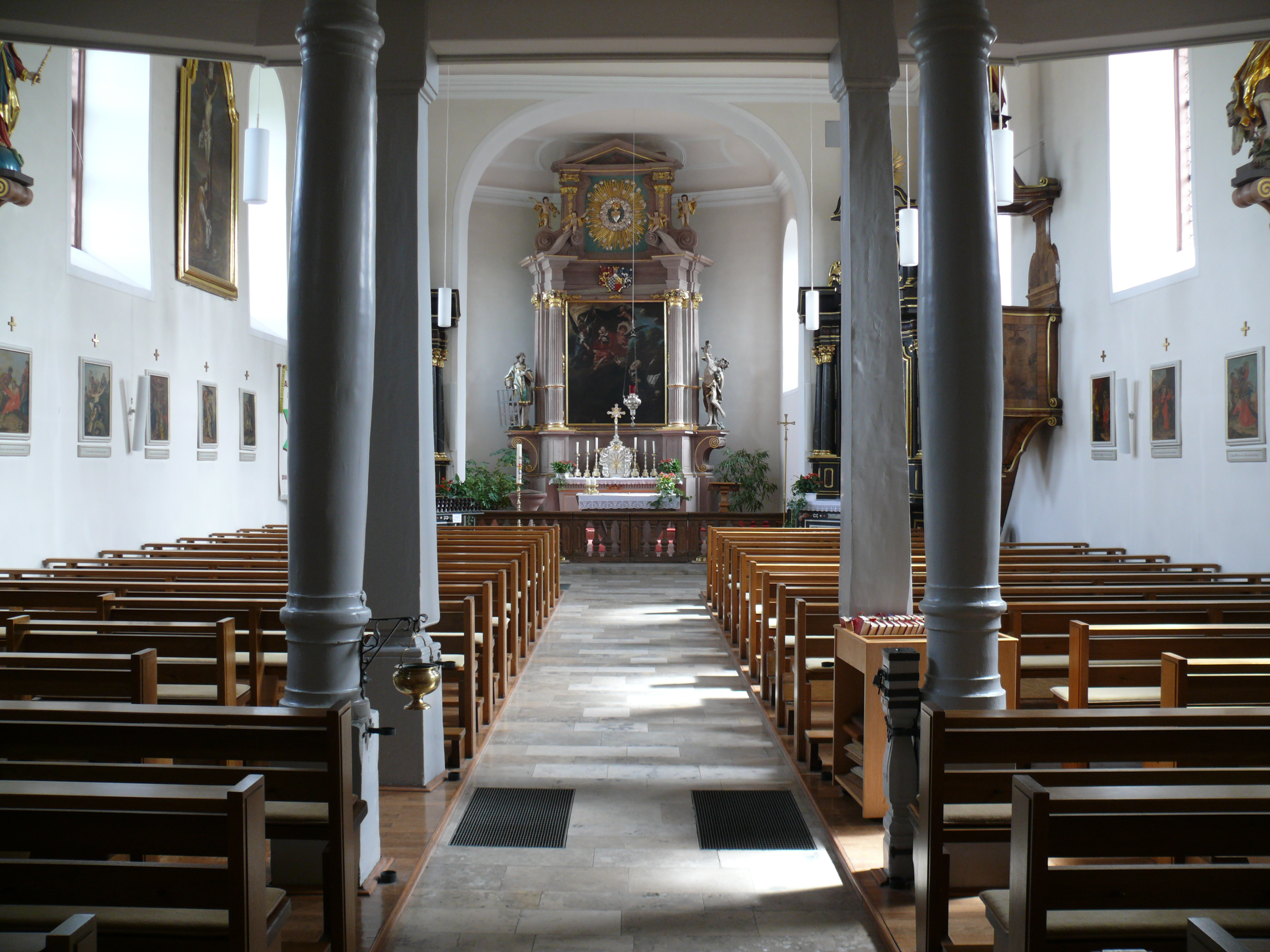 St.-Bartholomäus-Kirche (Saint Bartholomew church) in Dilsberg (a district of Neckargemünd, Germany): view from the main entrance towards the altar.